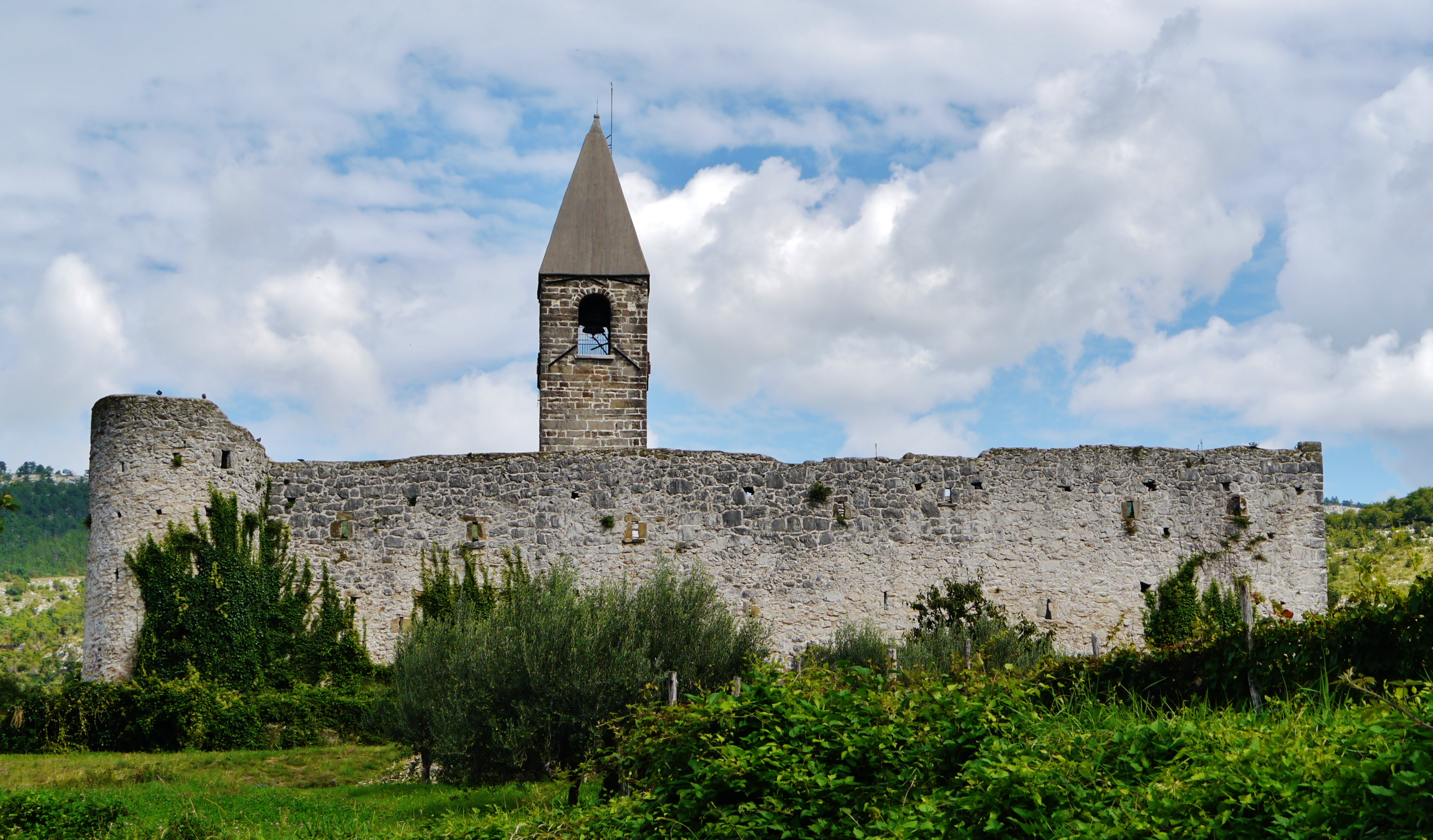 Holy Trinity Church, Hrastovlje, Slovenia